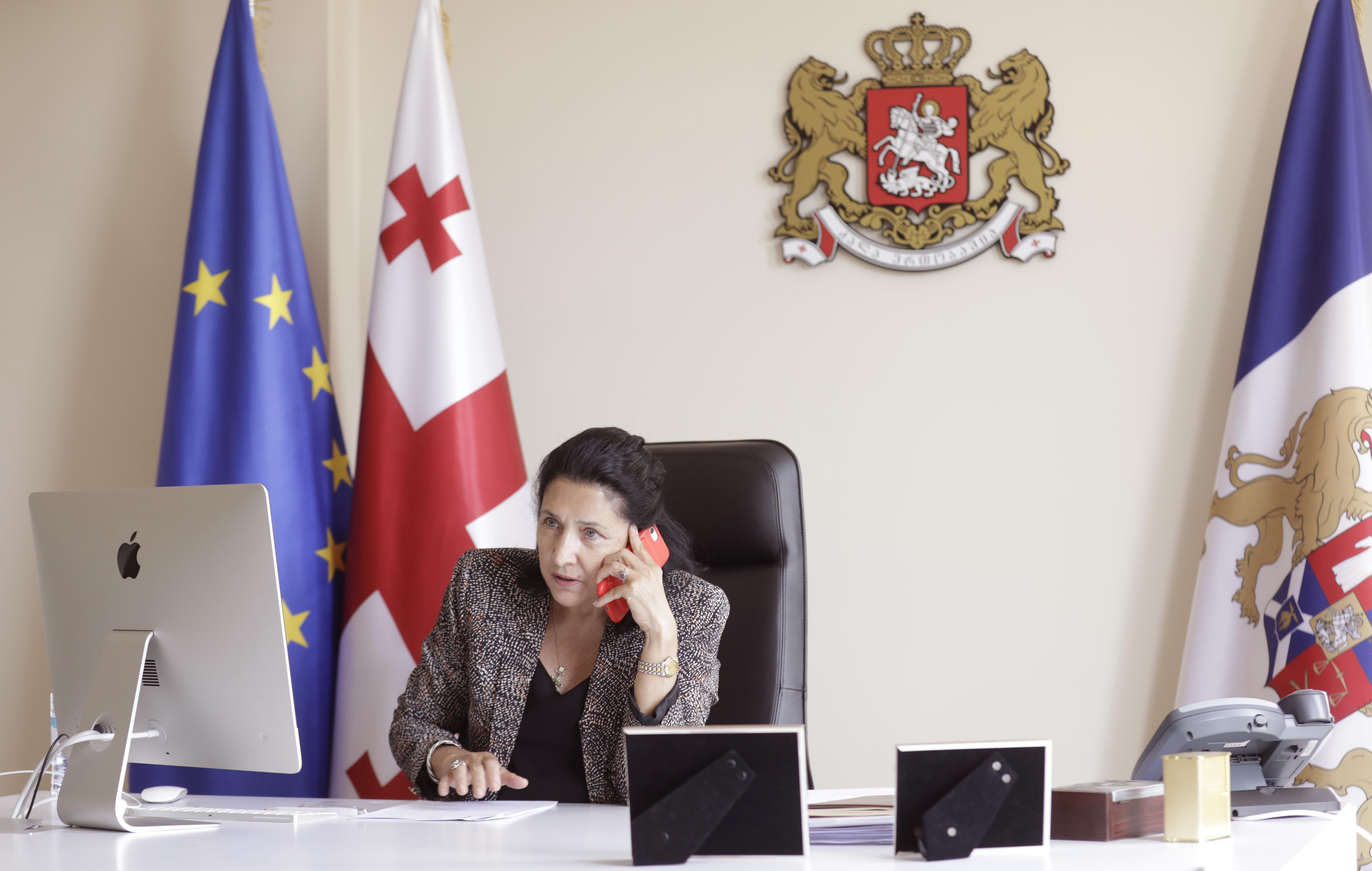 Georgian President Salome Zourabichvili discussing the COVID-19 pandemic with Moon Jae-in, President of the Republic of Korea.